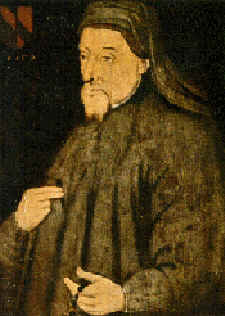 Geoffrey Chaucer; "The Harvard Portrait". The original painting in oils on wood was held for at least three centuries at Stanshawe's Court near Bristol. It was presented to Harvard University by Charles Eliot Norton, and placed in the Fogg Museum of Harvard Library. Ref: A Mirror of Chaucer's World, by Roger Sherman Loomis [1]. Further details can be found in Collection of mediaeval and renaissance paintings, Fogg Art Museum, Harvard University by Fogg Art Museum, 1919, pages 322-323 [2].